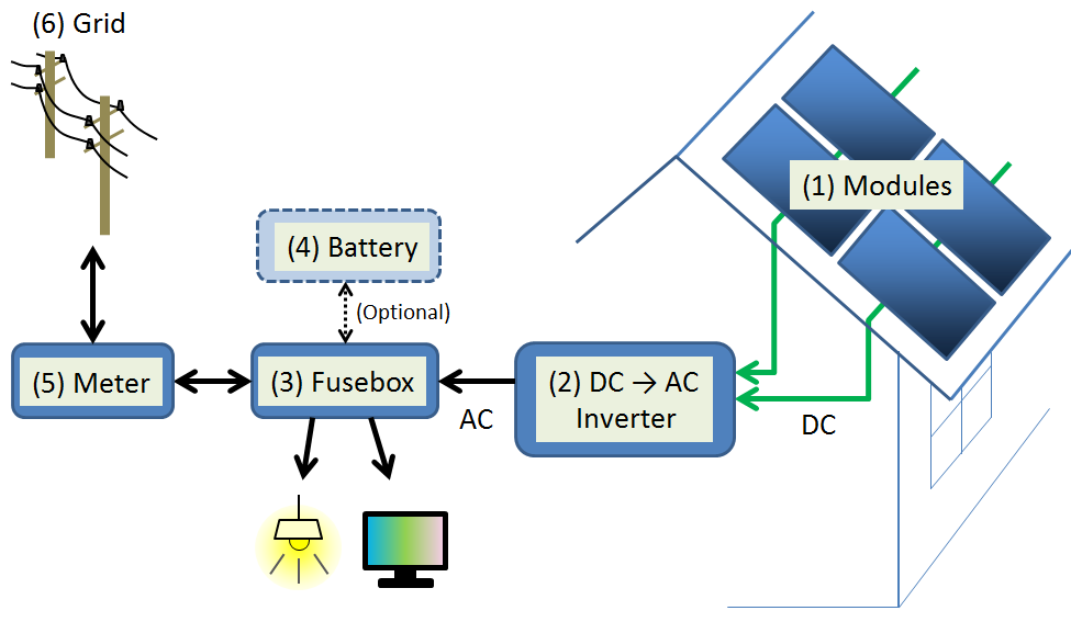 Simplified schematic diagram of a residential PV system (Original creation, public-domain) Reference(for example): Solar Cells and their Applications Second Edition, Lewis Fraas, Larry Partain, Wiley, 2010, ISBN 978-0-470-44633-1 , Figure 10.2